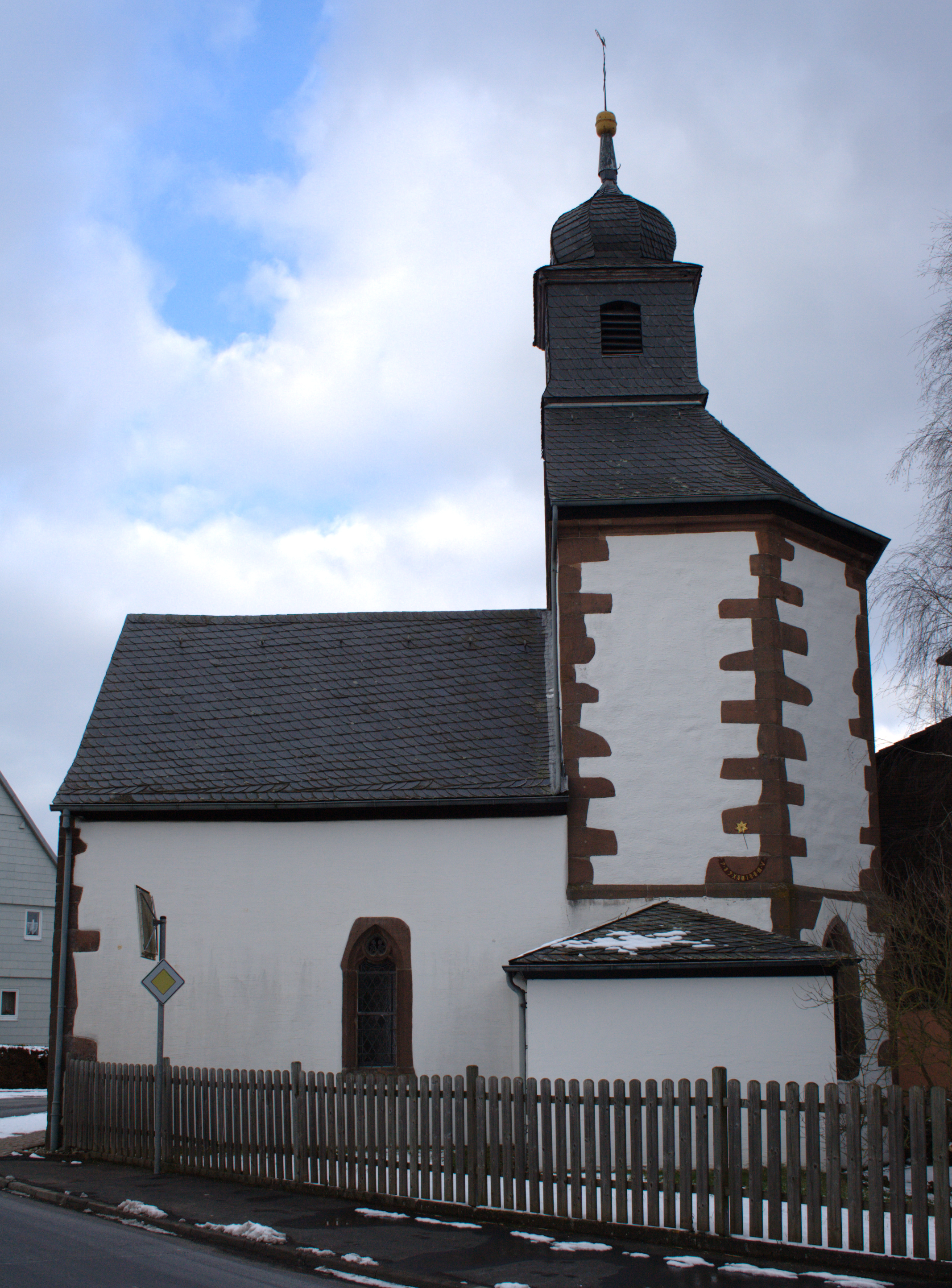 St. Valentinus church in Eichenau Grossenlueder Hesse